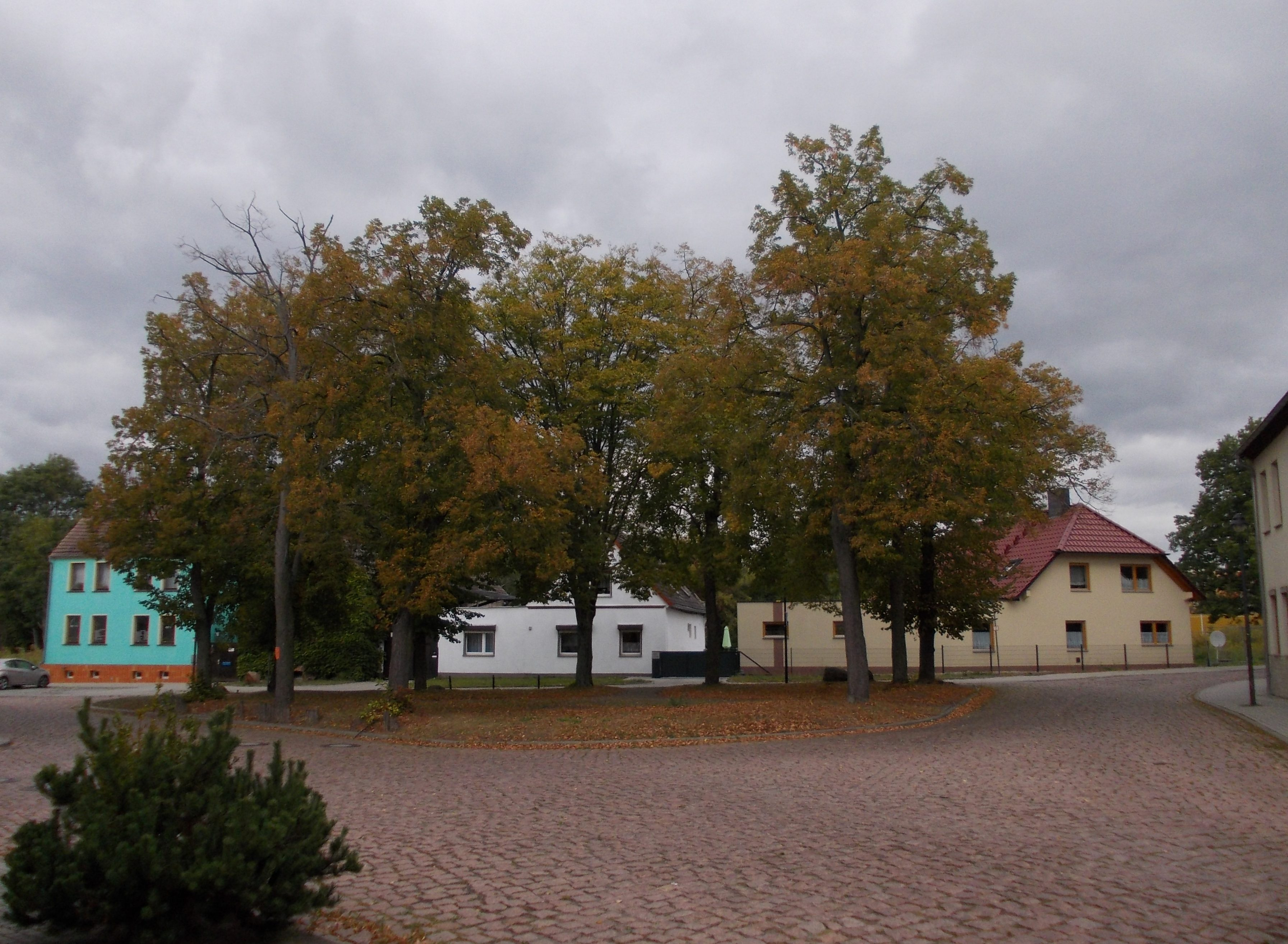 Grüner Platz ("green square") in Seeben (Halle/Saale, Saxony-Anhalt)